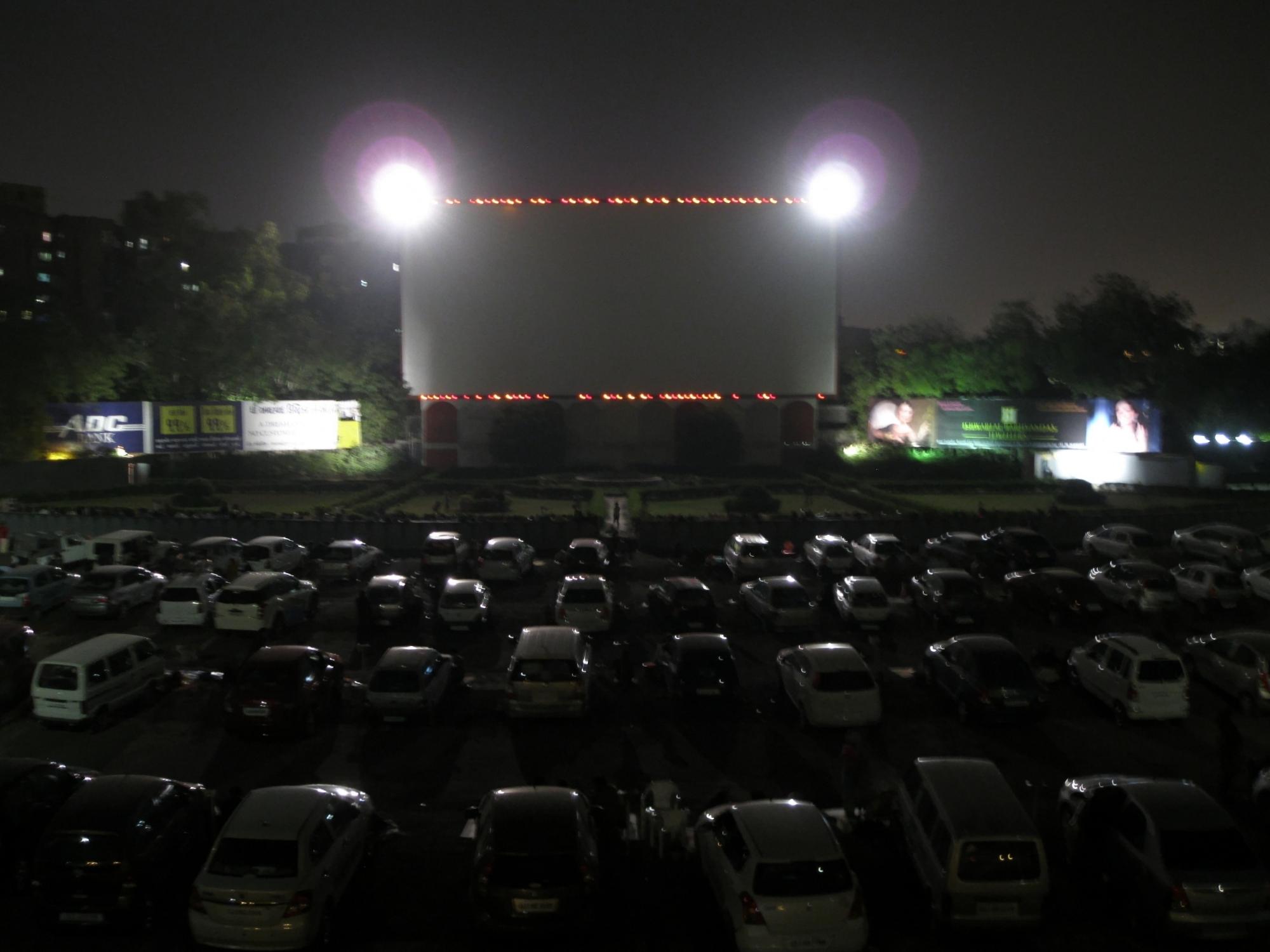 Sunset Drive-in, an open Air Cinema with the largest screen in Asia, is located at Ahmedabad. It is first of it's kind which can room about 665 cars at a time. More than 6000 people can enjoy watching movie at a time. Started on September 6th 1973, the first film it hosted was "ABHIMAAN". Till date, this theatre is one of the most popular hang-outs in the city. Dolby Sound and Covered sitting facility attracts people who don't own cars as well. Being one of the best family entertainment spot, it caters to all the age groups. The restaurant at Drive-in offers wide variety of food at best prices. On Friday one can find an enthusiastic crowd of young, fashion conscious crowd of guys and gals and freaking out.